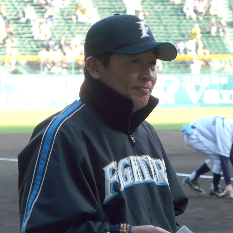 NF-Masataka-Nashida20100513